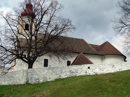 Church of Tar.